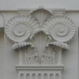 Close-up of ammonite capitals on one of the Grade II*-listed houses in the central section of Montpelier Crescent, Montpelier, City of Brighton and Hove, England.